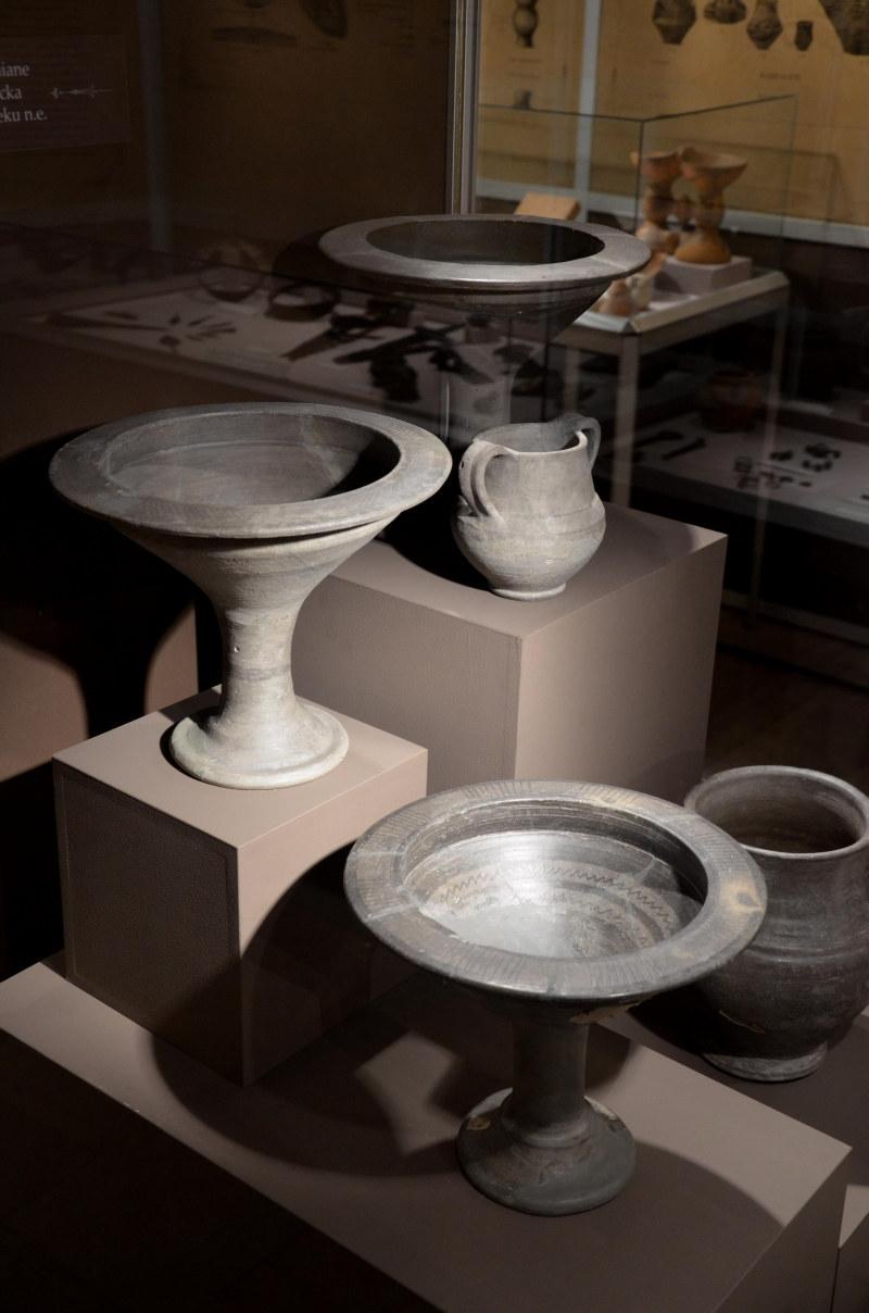 Pottery of the Lipița culture (associated with Costoboci, a Dacian tribe) located in the space between the Dniester and Moldova between 1st century BC to the 3rd century AD. Archaeological Museum in Kraków.